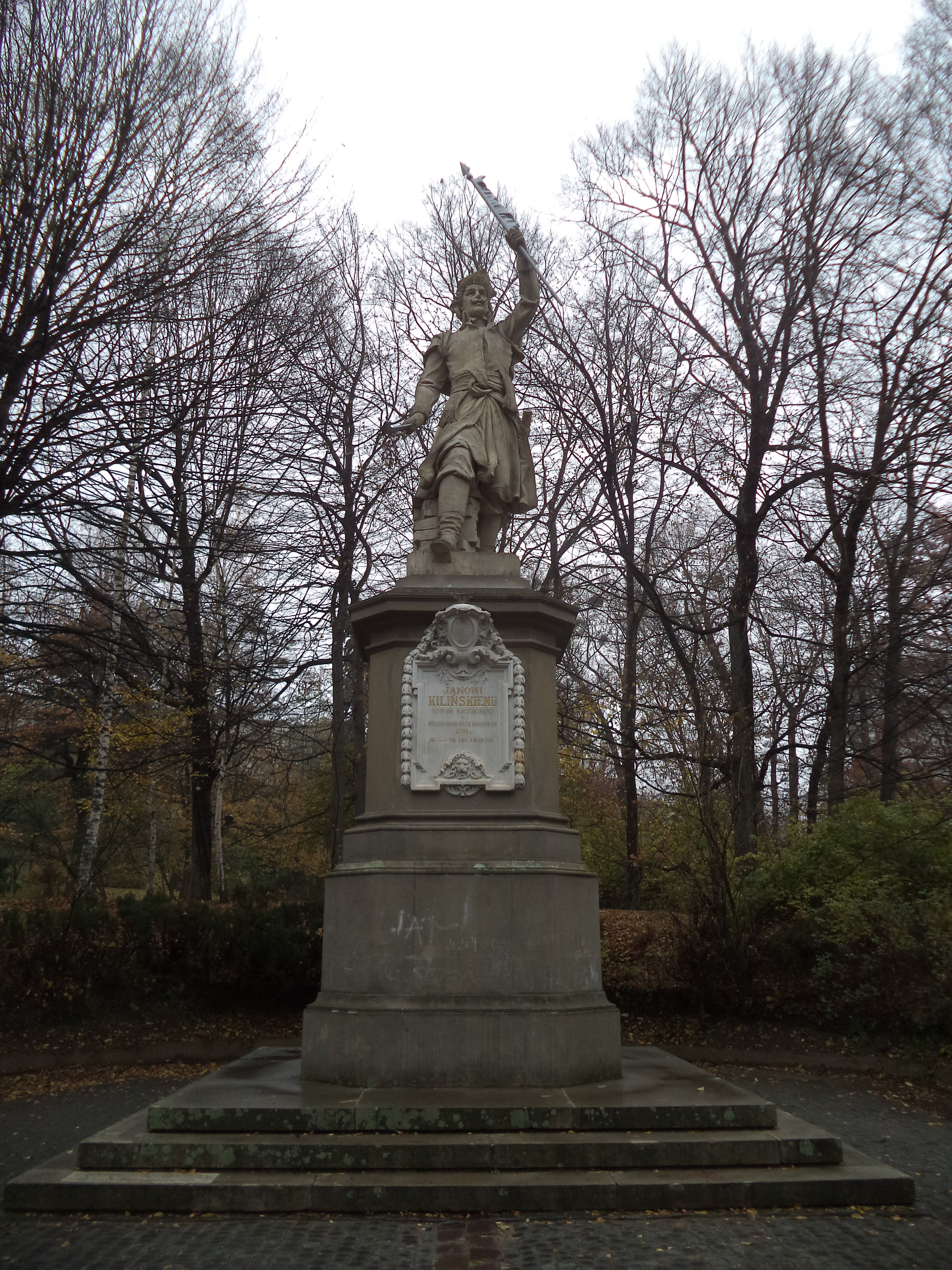 Statue of Jan Kiliński in Lviv (Ukraine).